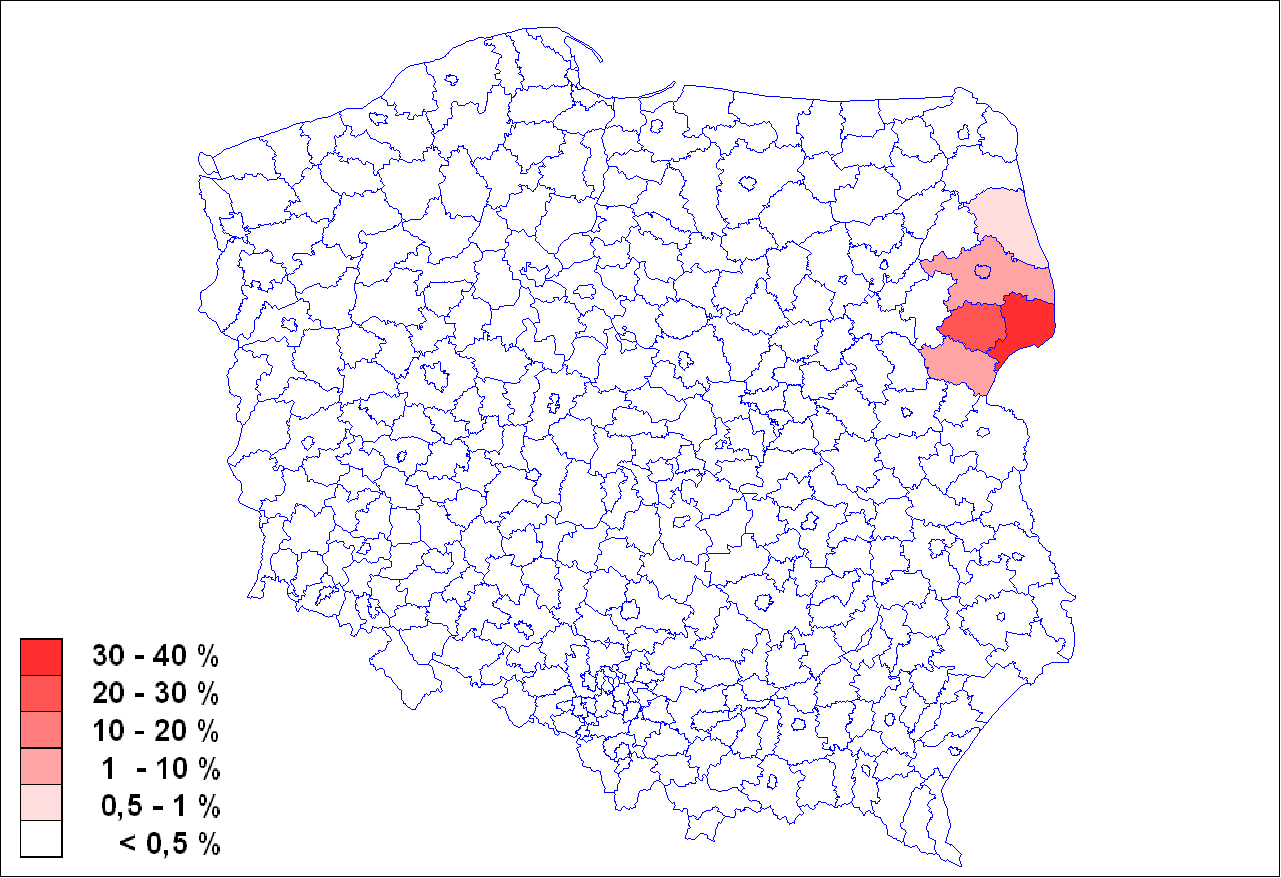 Belarusians living in Poland, according to 2002 Census